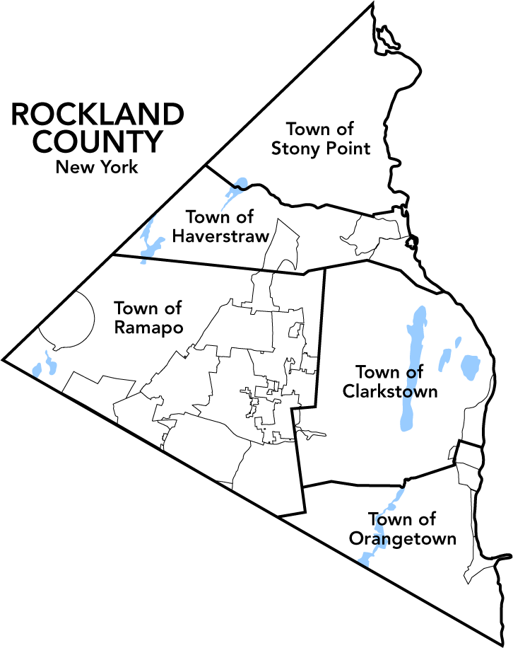 I made this file. Salvo 08:13, 20 February 2006 (UTC)